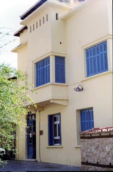 Outside view, image from the Folklore Museum, Edessa, Central Macedonia, Greece